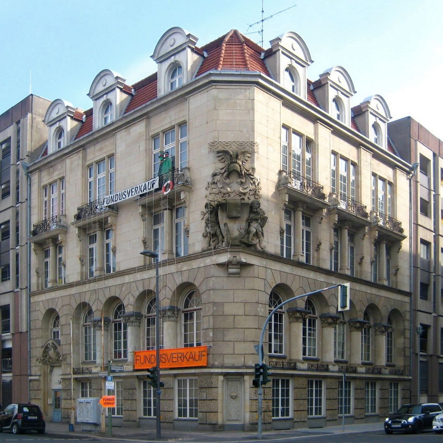 Historic residential and commercial buildings at Behrenstraße No. 14-16, corner of Glinkastraße (right), in Berlin-Mitte. The building was constructed in 1898 to a design by the architect Heinrich Theising. It is now used by Komische Oper, which sells its obsolete theatrial property here. The building has been designated as a historic landmark.